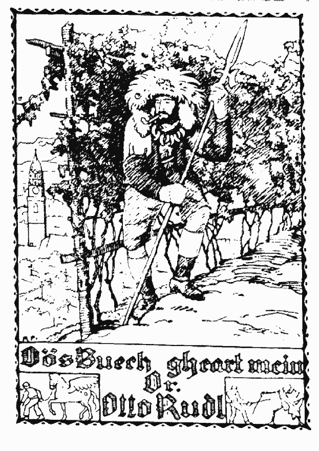 Ex libris of Dr Otto Rudl of Bozen-Bolzano from 1920 ca